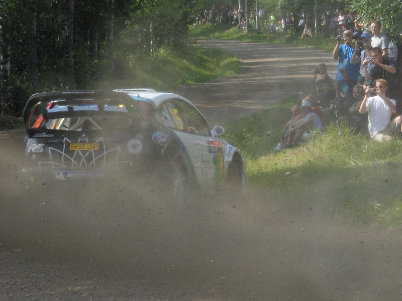 François Duval driving his Ford Focus RS WRC 04 at the 2004 Rally Finland.